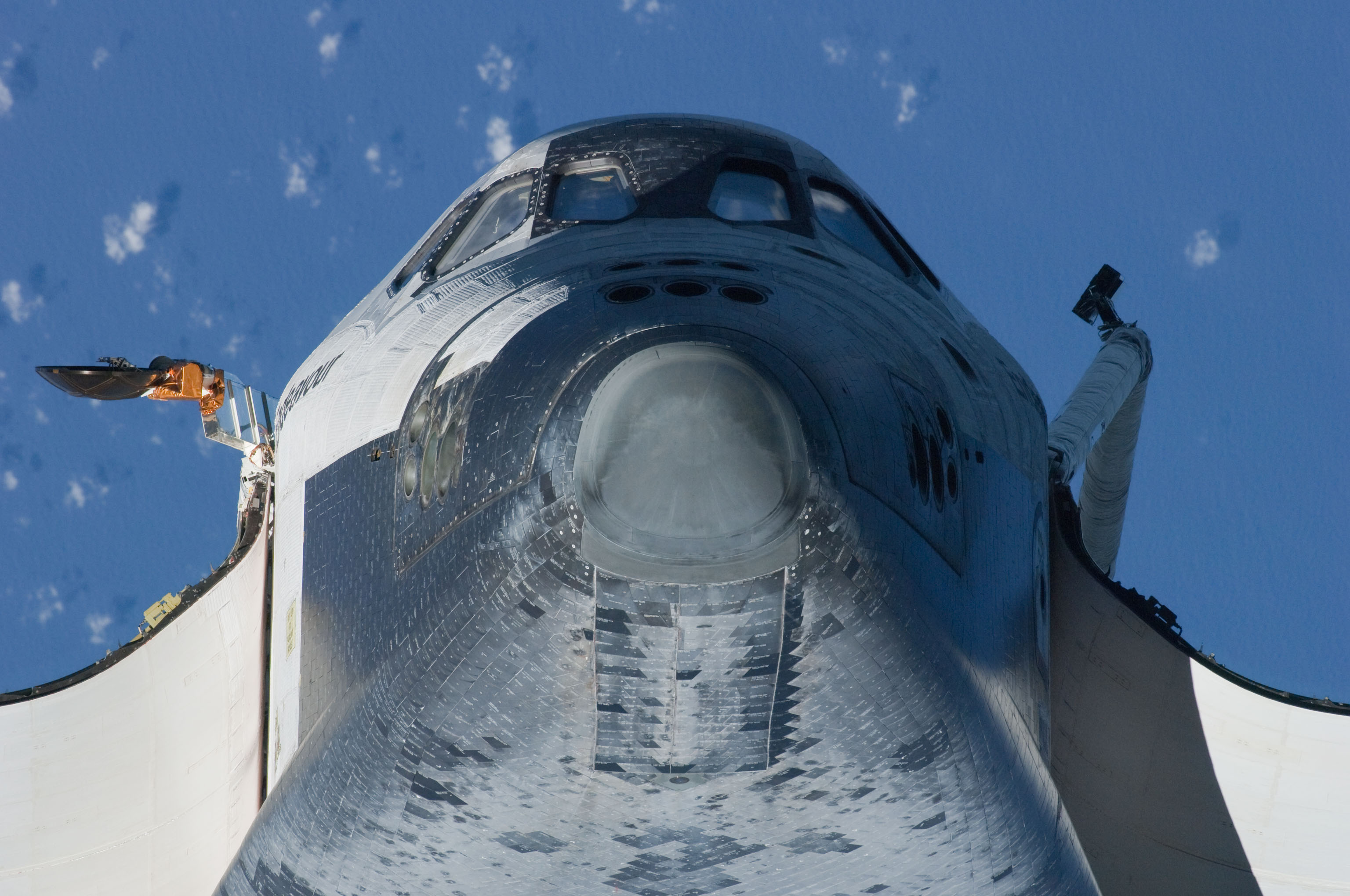 This view of the underside of the crew cabin of the space shuttle Endeavour was provided by an Expedition 22 crew member during a survey of the approaching STS-130 crew to the International Space Station. As part of the survey and part of every mission's activities, Endeavour performed a back-flip for the rendezvous pitch maneuver (RPM). The image was photographed with a digital still camera, using a 400mm lens at a distance of about 600 feet (180 meters).